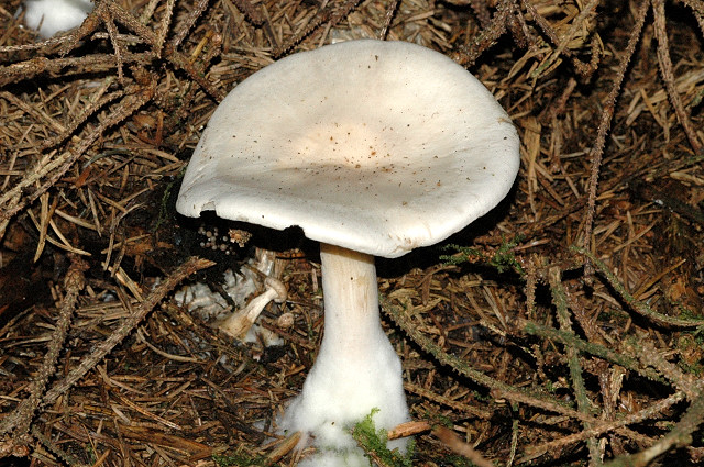 Clitocybe phyllophila from Commanster, Belgium. If you think this is a different taxon, please contact James Lindsey.